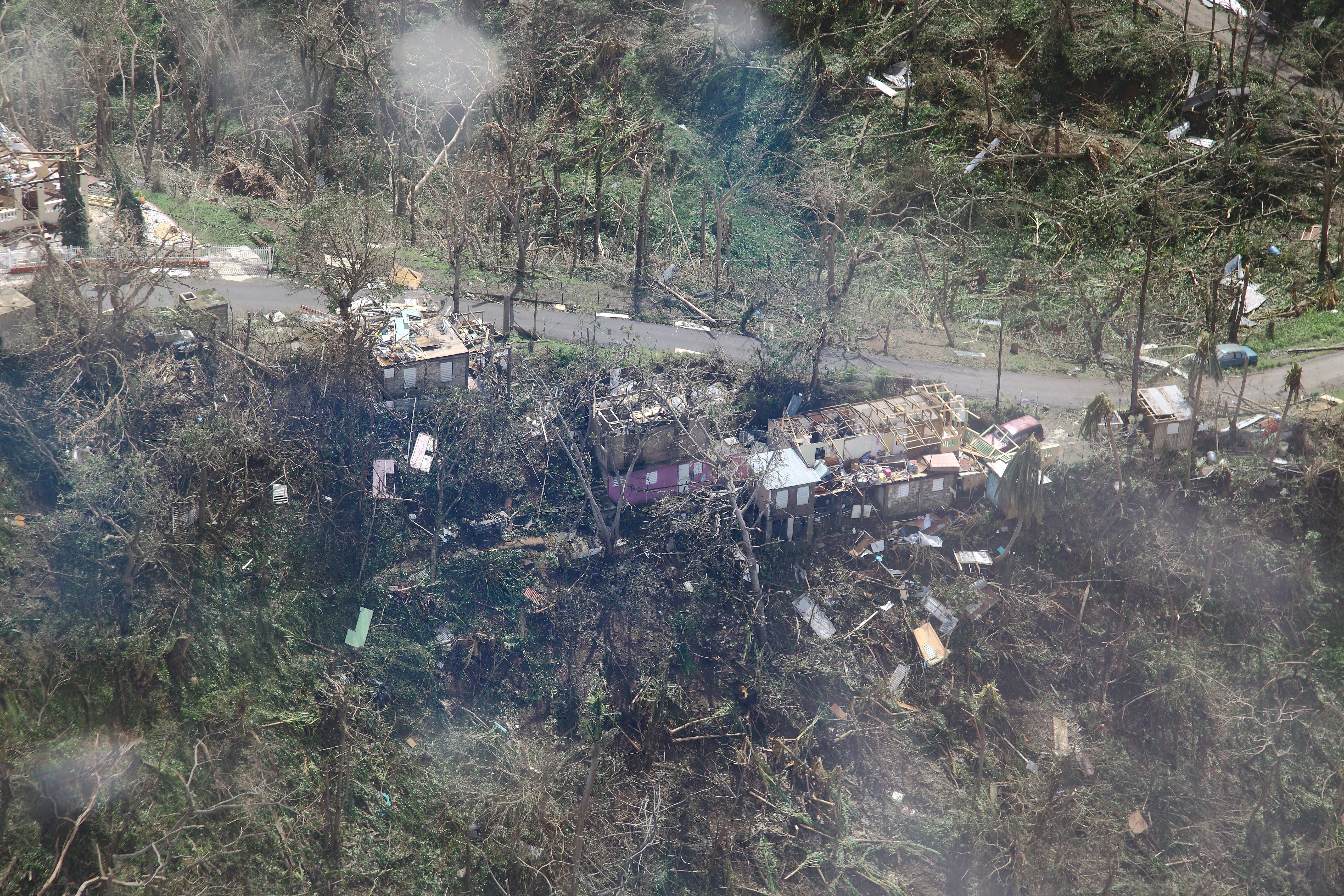 Homes lay in ruin as seen from a U.S. Customs and Border Protection, Air and Marine Operations, Black Hawk during a flyover of Puerto Rico after Hurricane Maria September 23, 2017. U.S. Customs and Border Protection photo by Kris Grogan